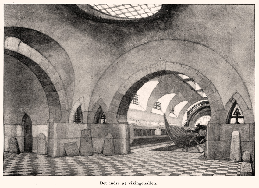 Proposal by architect Fritz Holland for an exhibition of the excavated viking ships in an underground hall in Oslo. Teknisk Ugeblad 1907.